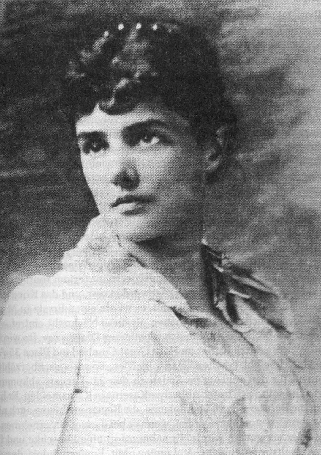 Jennie Churchill in 1875.